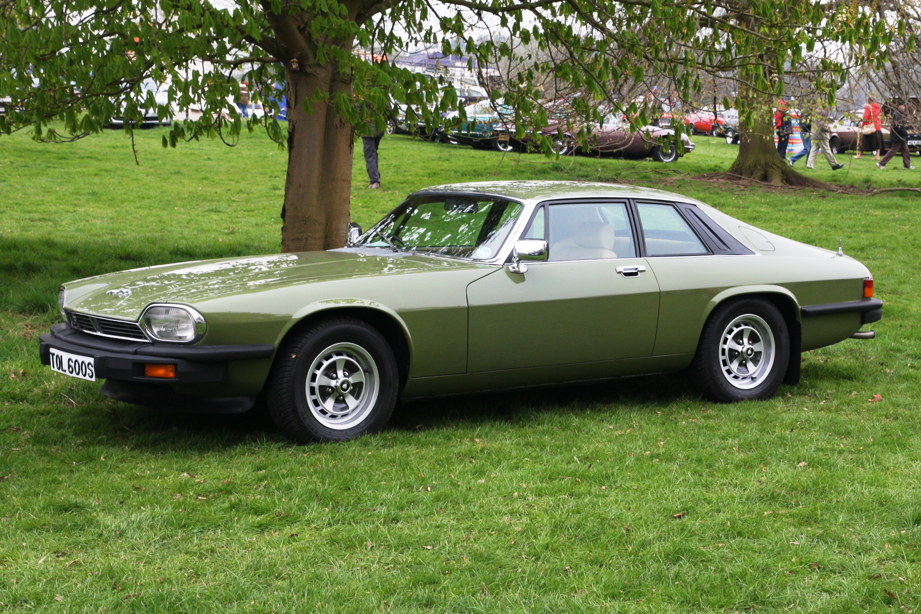 Jaguar XJ-S (1978) at Weston Park The absence of a chrome insert on the upper part of the front bumper indicates that this model was produced before July 1981, which was the month of the model's first (not very extensive) facelift